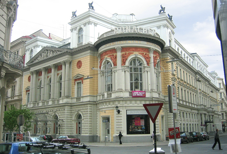 Wien, Austria: Etablissement Ronacher (theatre)